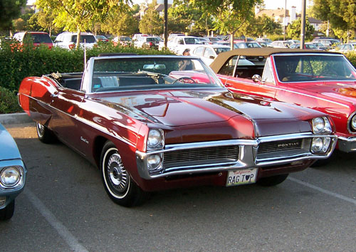 1967 Pontiac Catalina convertible at the weekly Garden Grove, California car show on Friday, July 23, 2004.